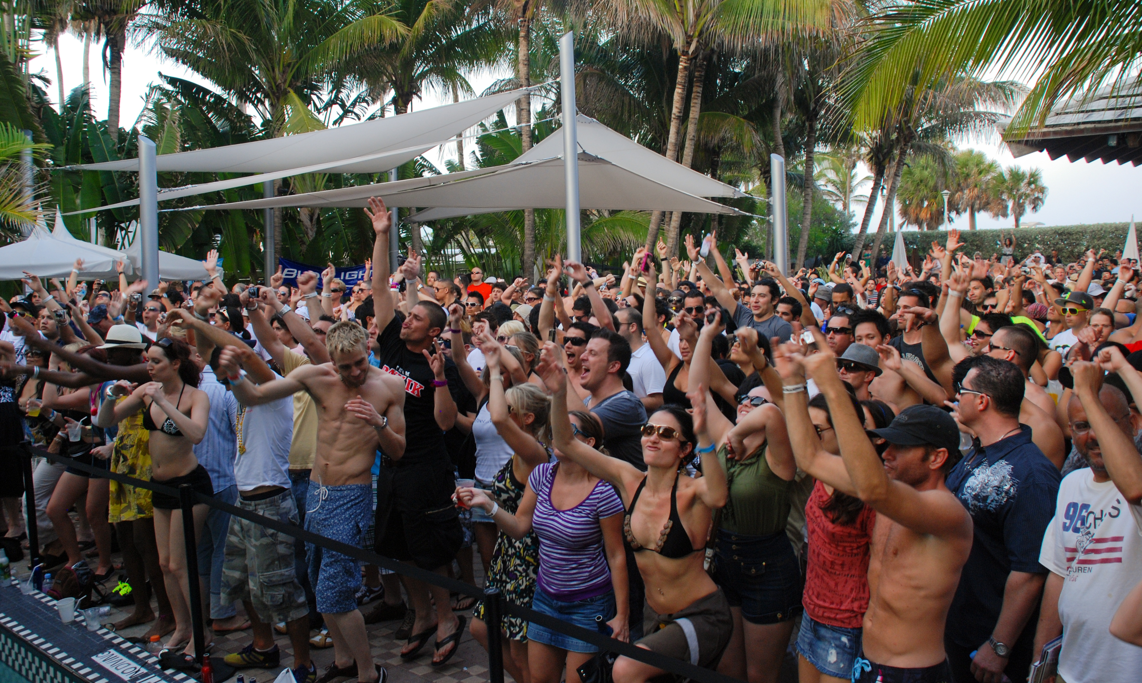 Beatport Pool Party at the Winter Music Conference 2009.